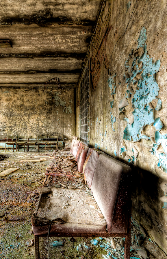 Lobby in the Pripyat hospital near Chernobyl. Image modified by hiob; size, light, and colors